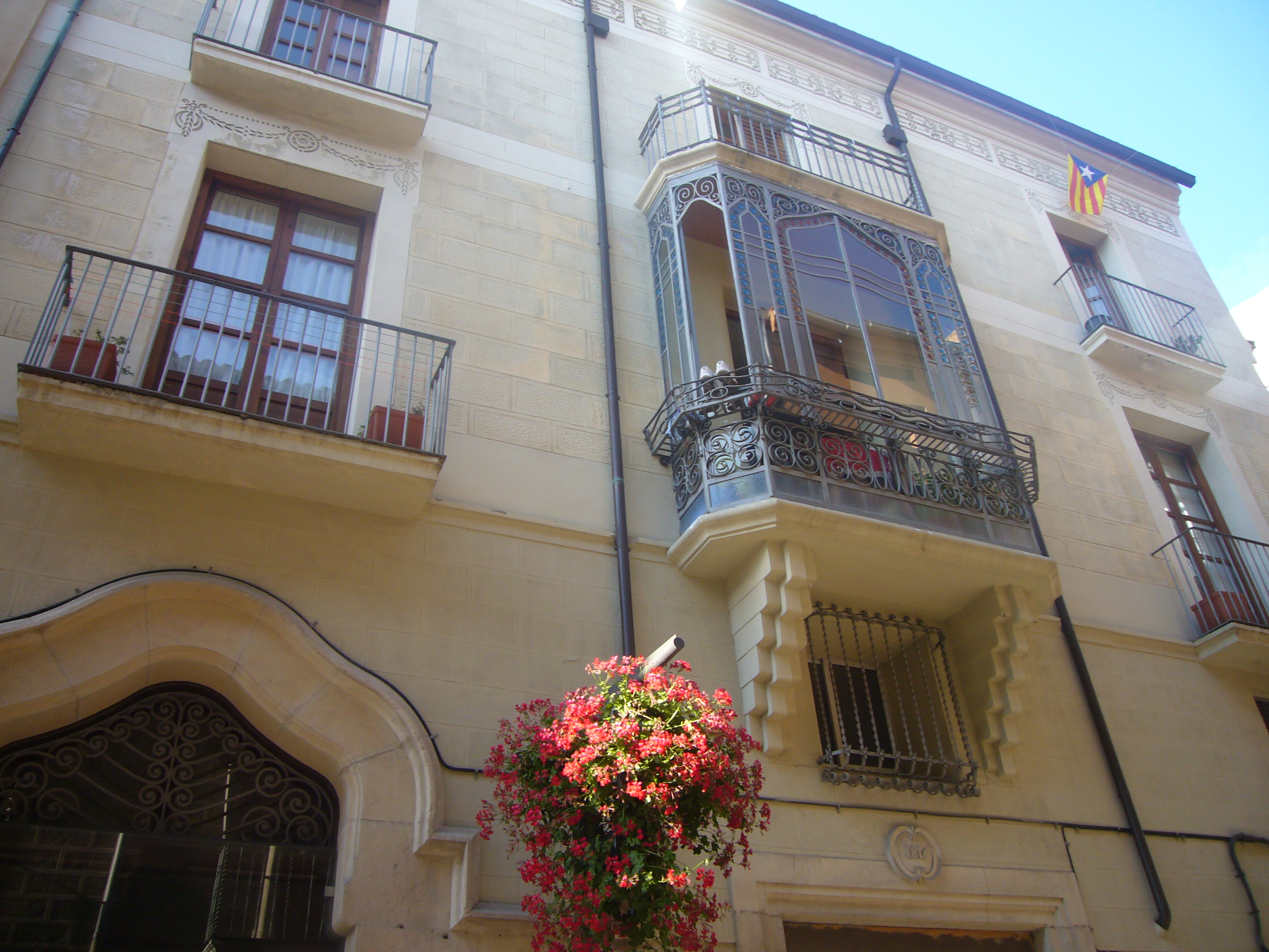 Casa Antoni Capell